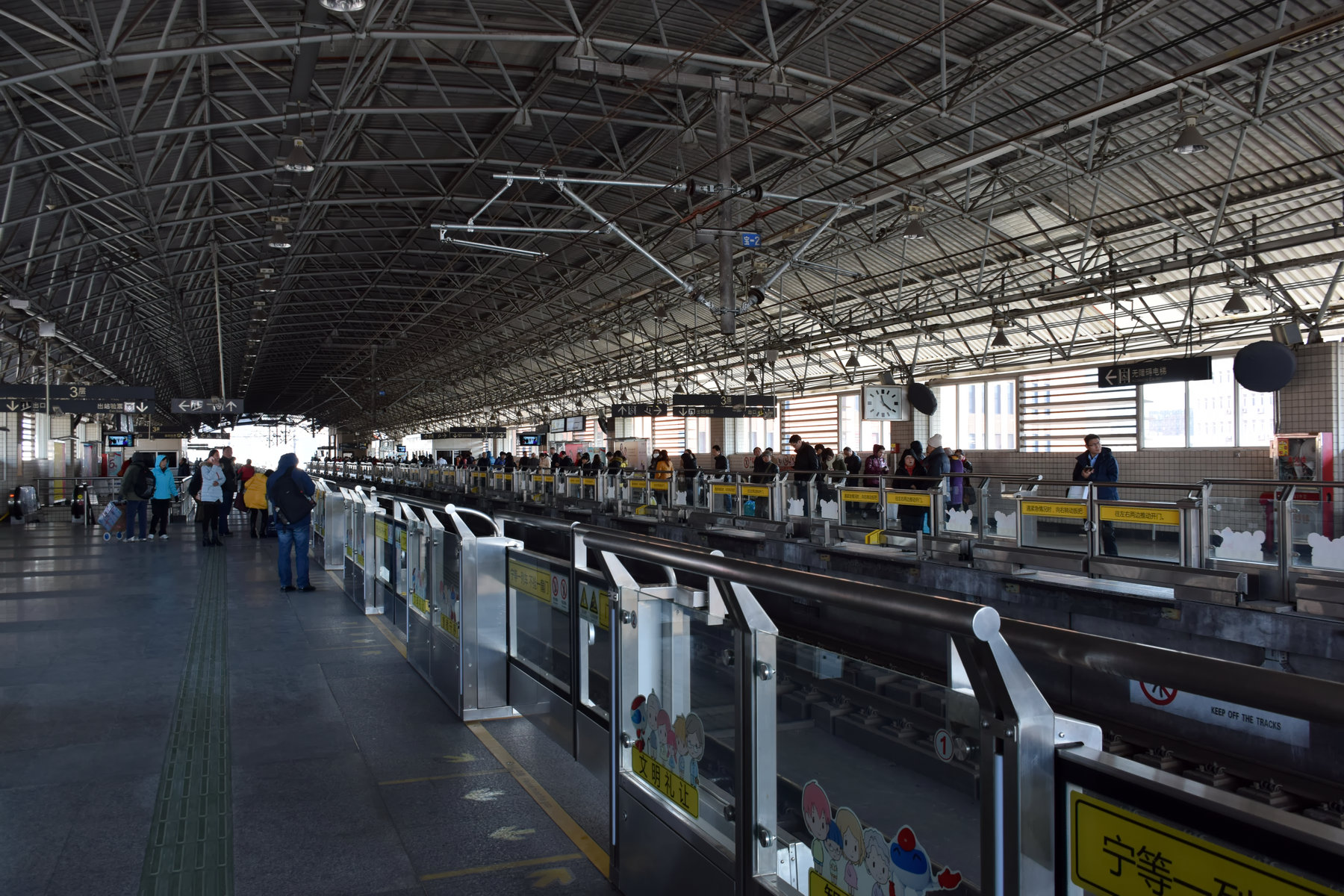 Line 3/4 Platform of Baoshan Road Station, Shanghai Metro